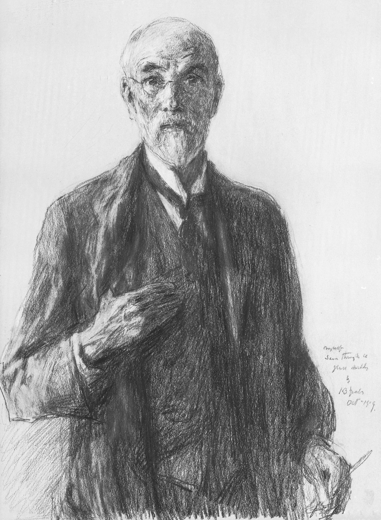 John Butler Yeats pencil 48 x 35 cm inscribed c.r.: Myself/ seen through a glass - / by / JB Yeats / Oct - 1919